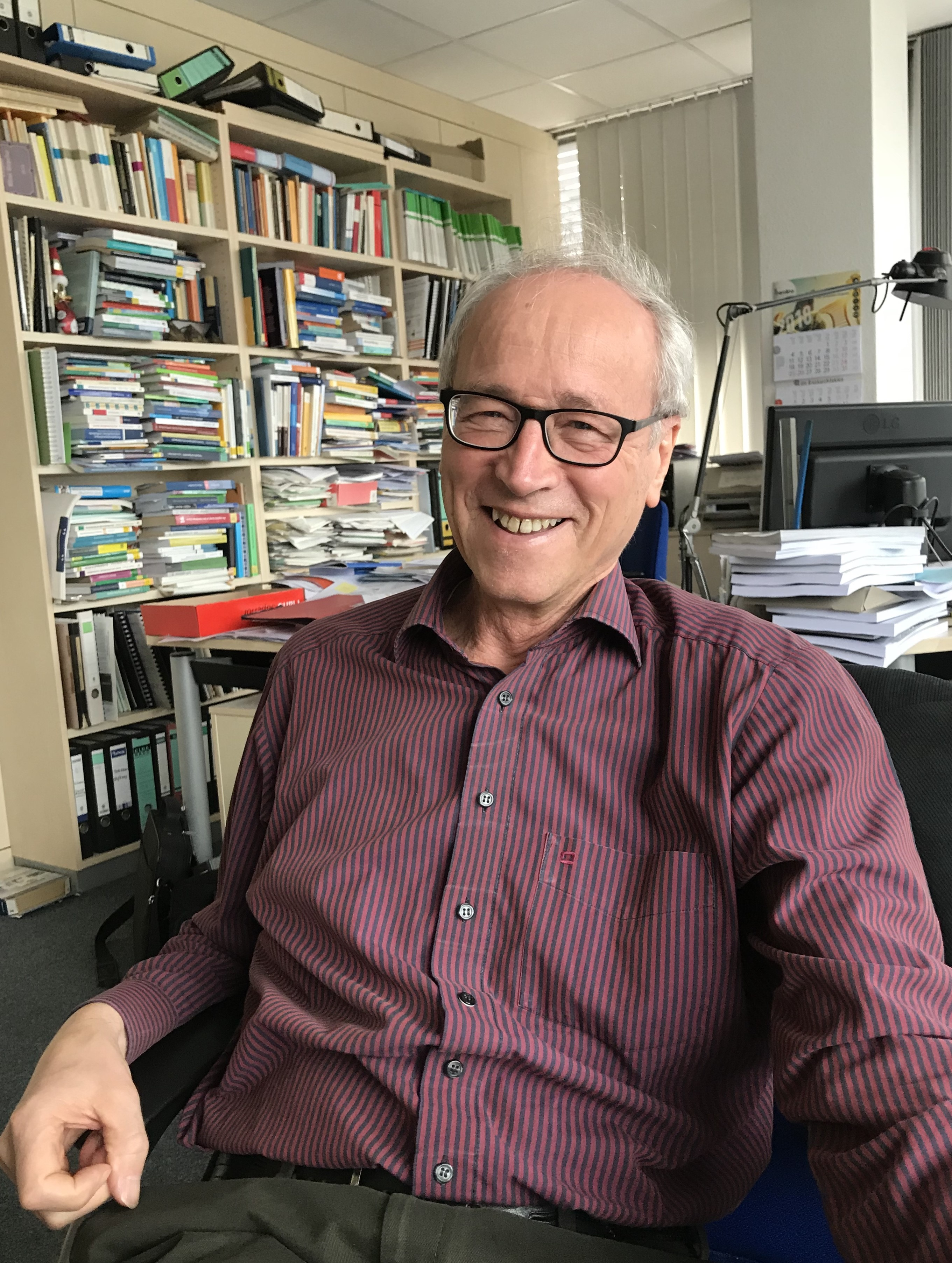 Portrait of Reinhold Nickolaus